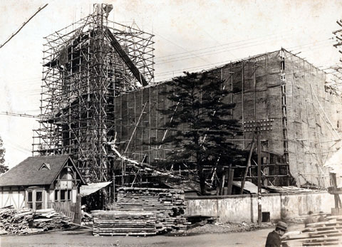 Okuma Auditorium being built during the early 1920s